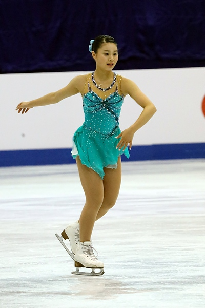 Photos – Junior World Championships 2017 – Ladies